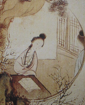 Scenes from Dream of the Red Chamber. Public domain artwork by Xu Baozhuan (1810-1873). image:hongloumeng1.jpg image:hongloumeng2.jpg